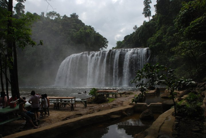 Tinuy-an Falls (Bislig City, Surigao del Sur, PH)